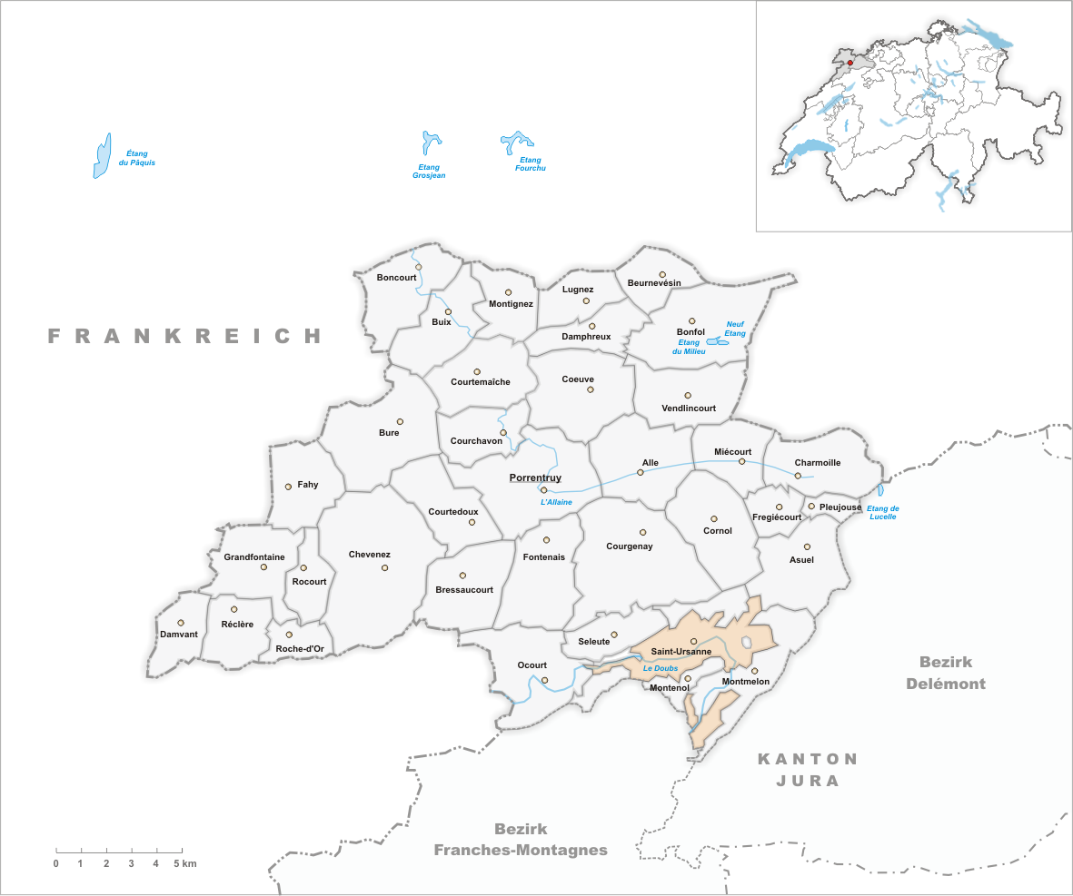 Municipality Saint-Ursanne